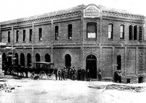 Connor hotel,1899, Jerome URL: Public domain -- copyright expired